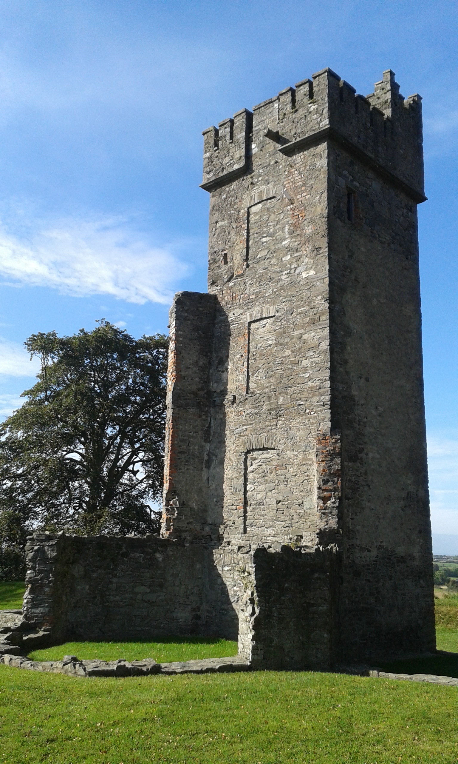 Dun Dealgan Motte, Castletown